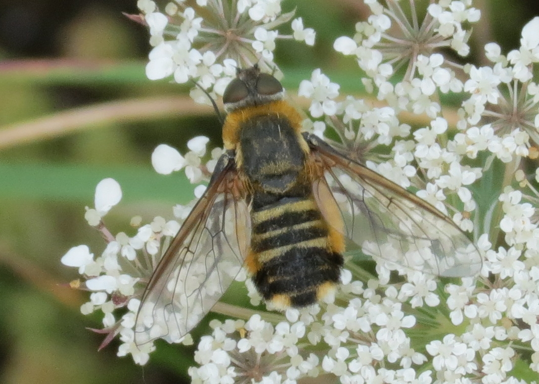 Villa modesta female